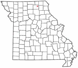 Modified from a map previously uploaded onto Wikipedia, a red dot indicates the position of the unincorporated community of Adair. It will be used in the Wikipedia article for the community.